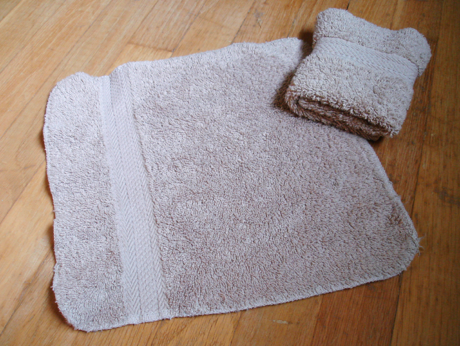 2 wash cloths, light brown terry